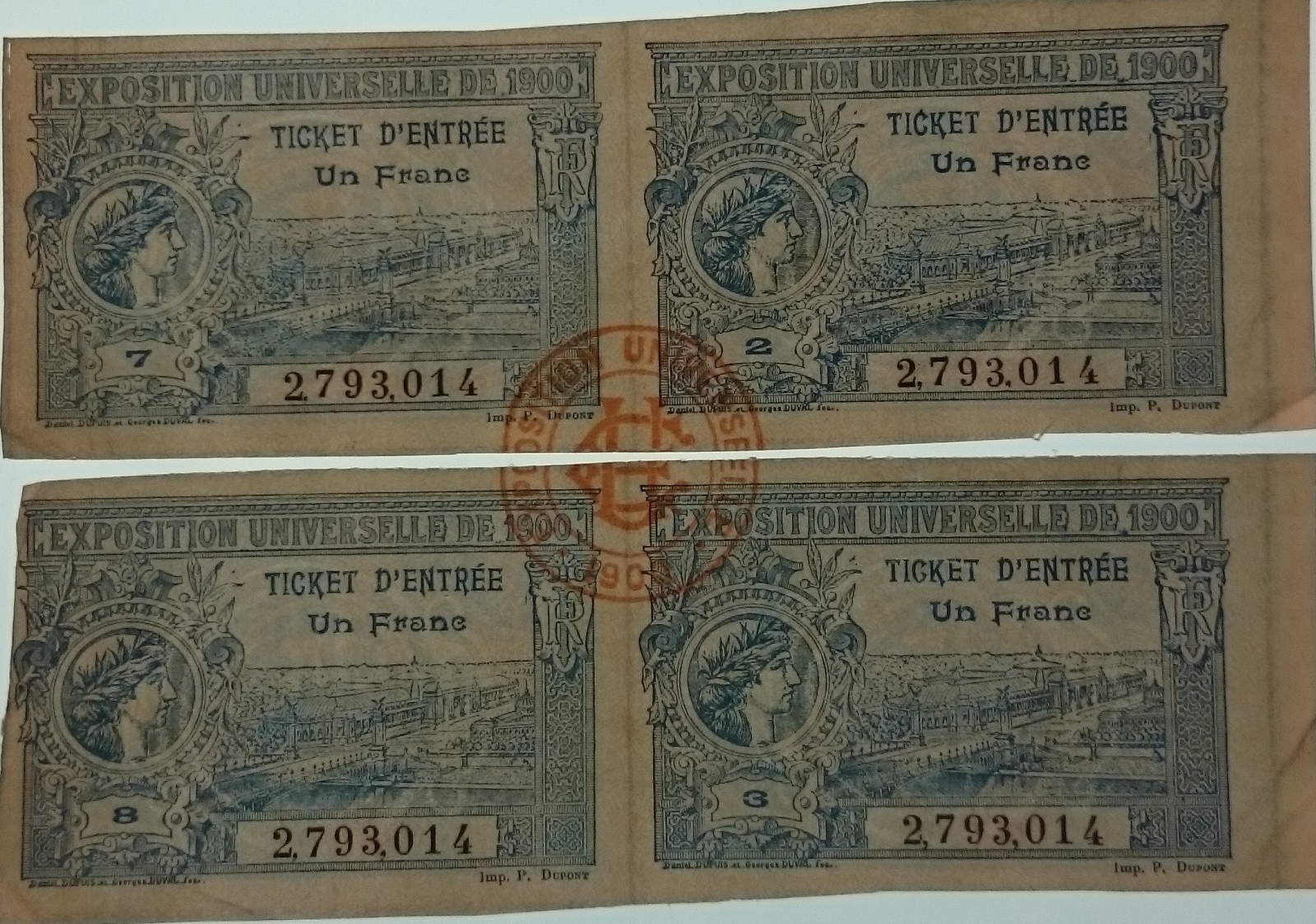 Exposition universelle de 1900 billet d'entrée